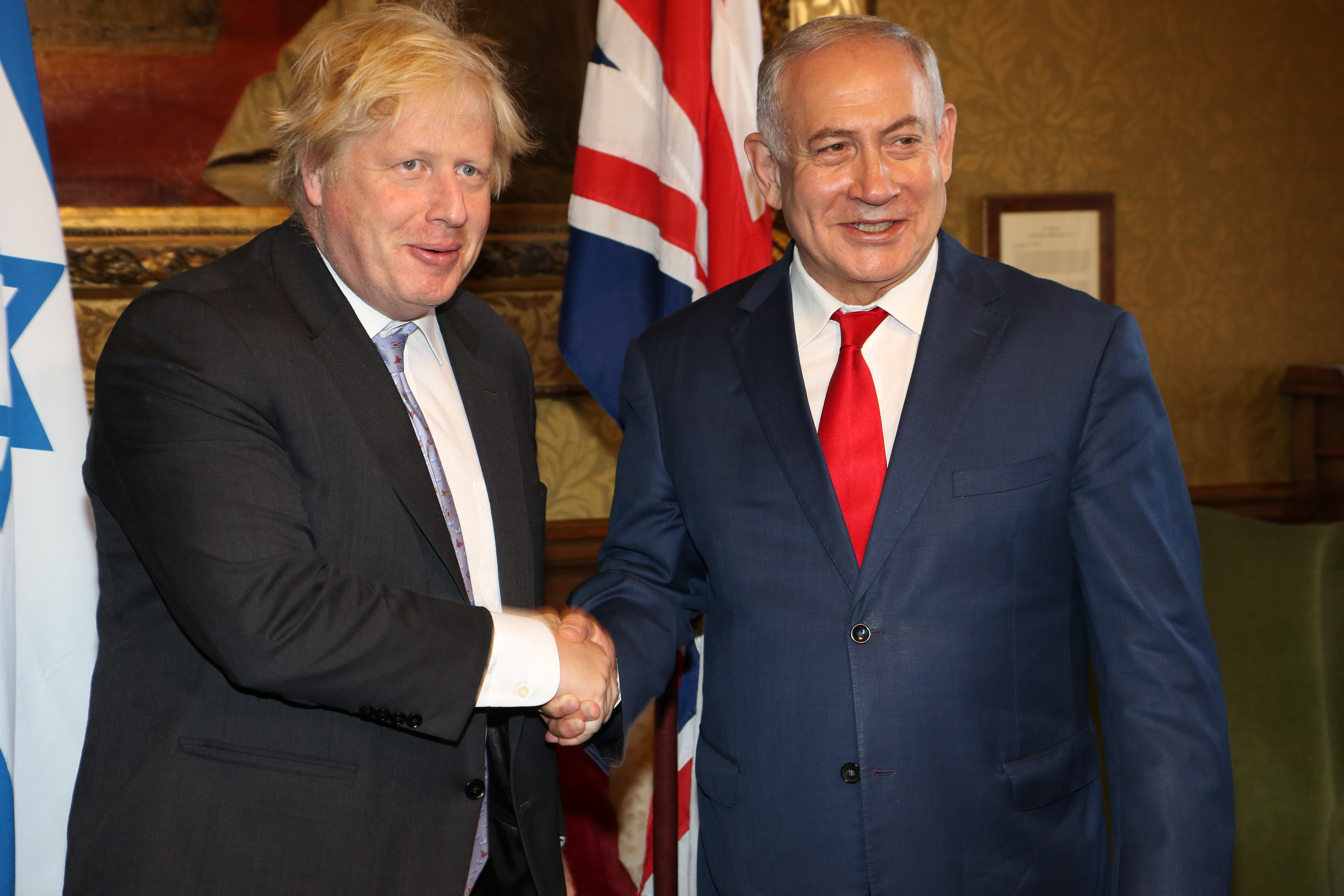 Foreign Secretary Boris Johnson meeting Benjamin Netanyahu, Prime Minister of Israel in London, 6 June 2018.